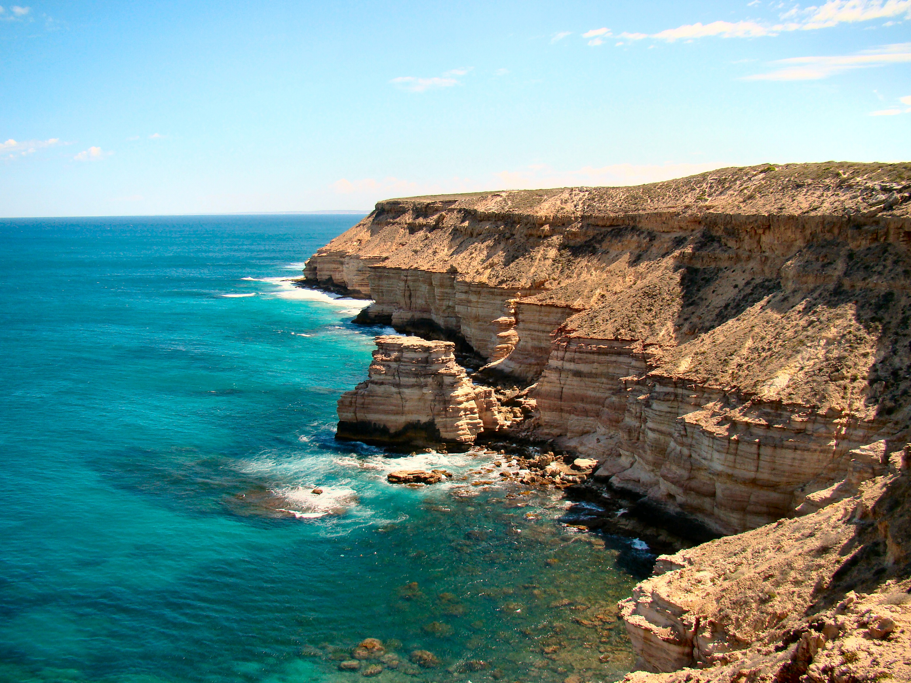 Kalbarri National Park, from the part of the park along the coast south of the town of Kalbarri. This particular formation is called Island Rock.